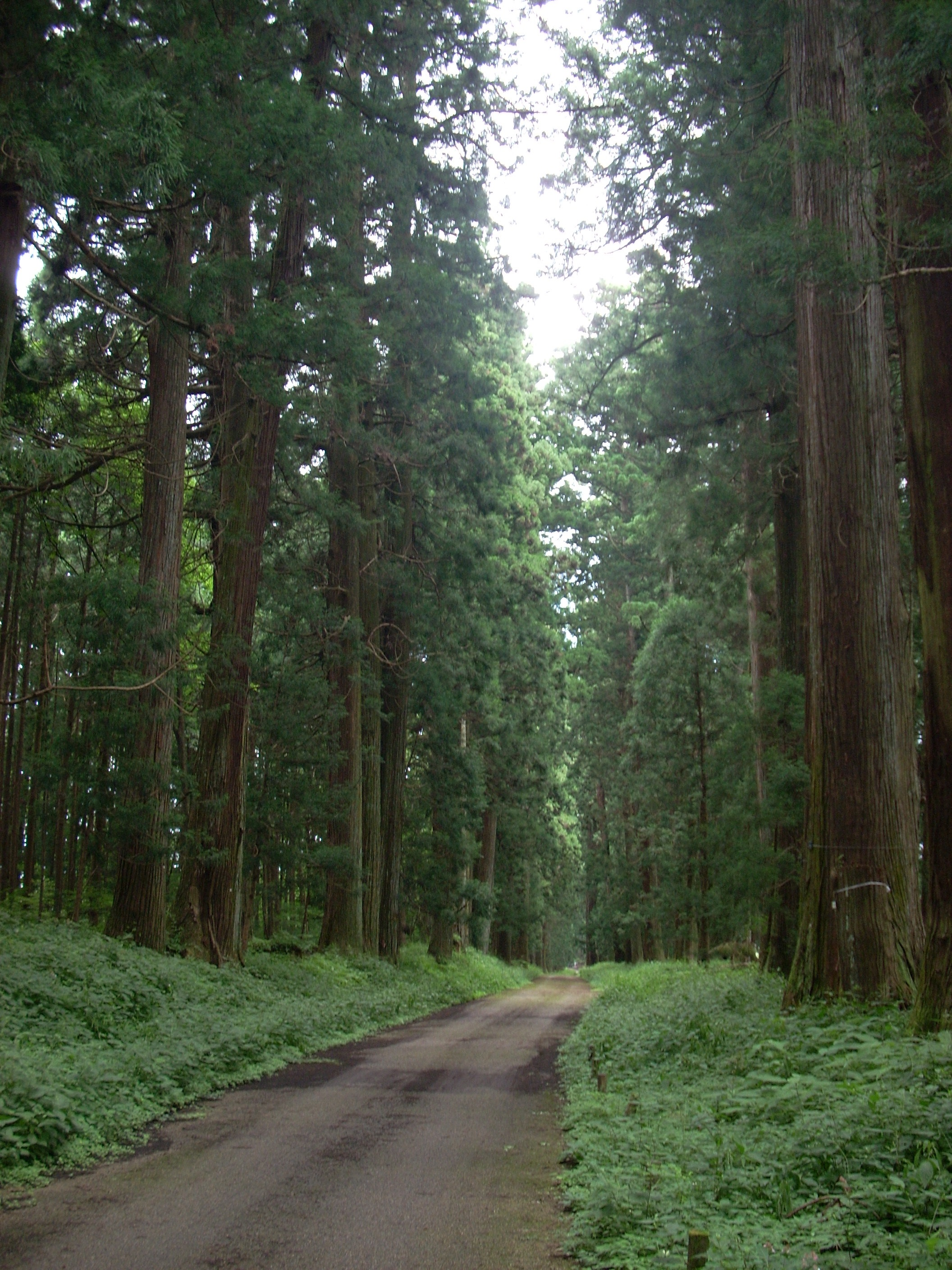 Cedar Avenue of Nikkō,Tochigi Prefecture, Japan.